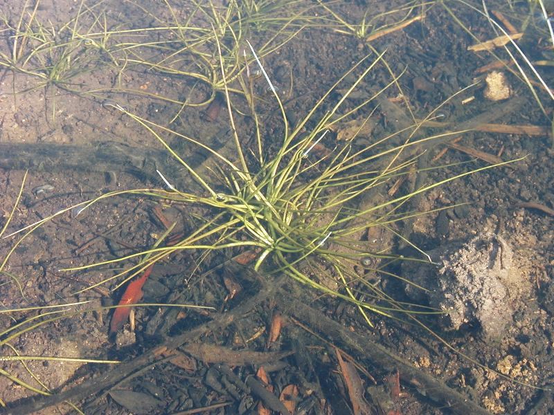 Isoetes velata is a small aquatic fern present in Puech Rebéquier rock pools on the Colle du Rouët range (Le Muy - Provence)